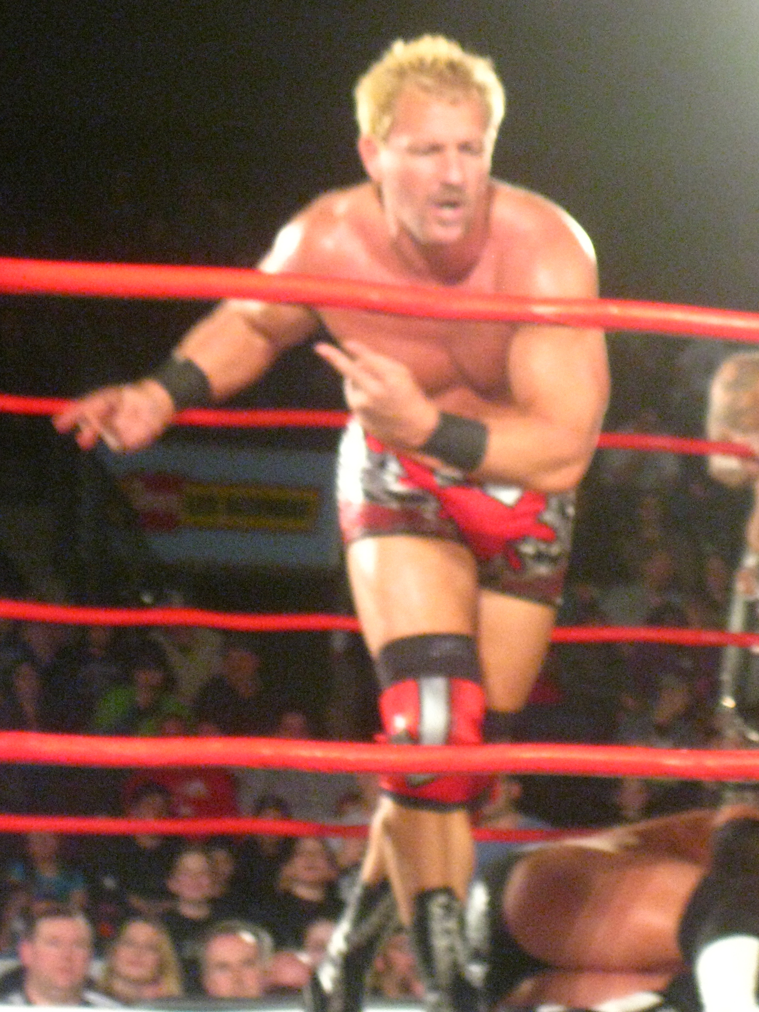 A TNA Live! Even at the ShoWare Center in Kent, WA. No PRO cameras were allowed so I had to put my Canon PowerShot SD1100 IS to work!